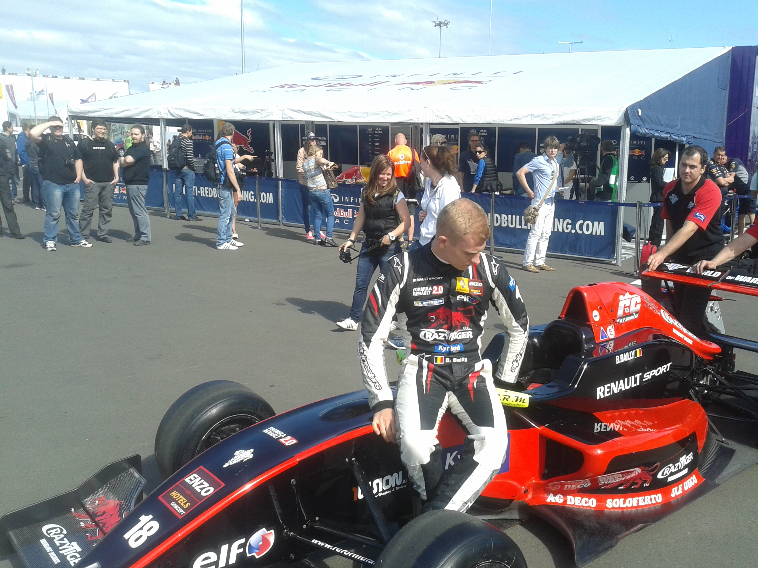 Benjamin Bailly at Moscow Raceway, 22 June 2013